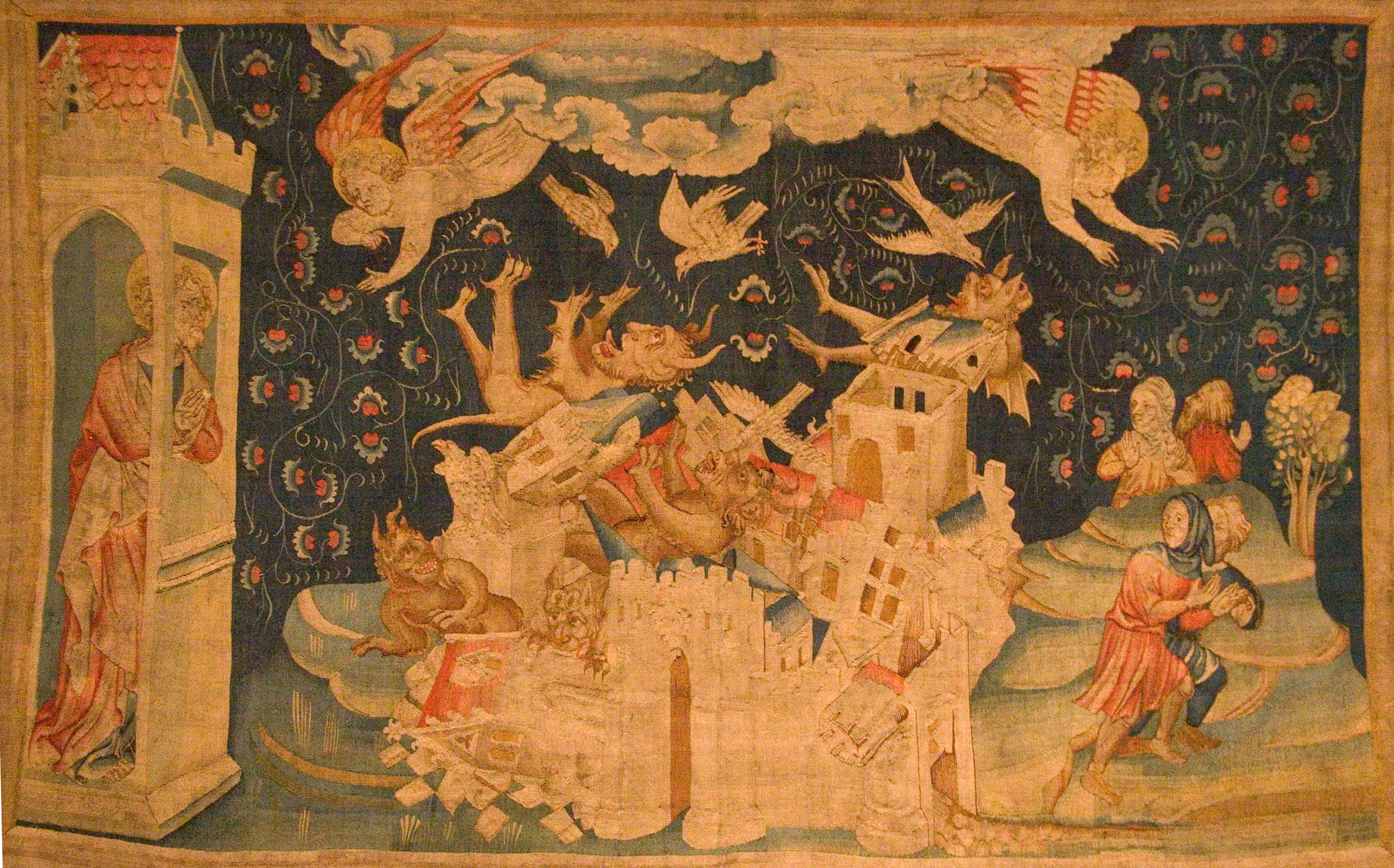 La chute de Babylone (tapisserie de l'Apocalypse) / The Fall of Babylon (Tapestry of the Apocalypse); Angers, France